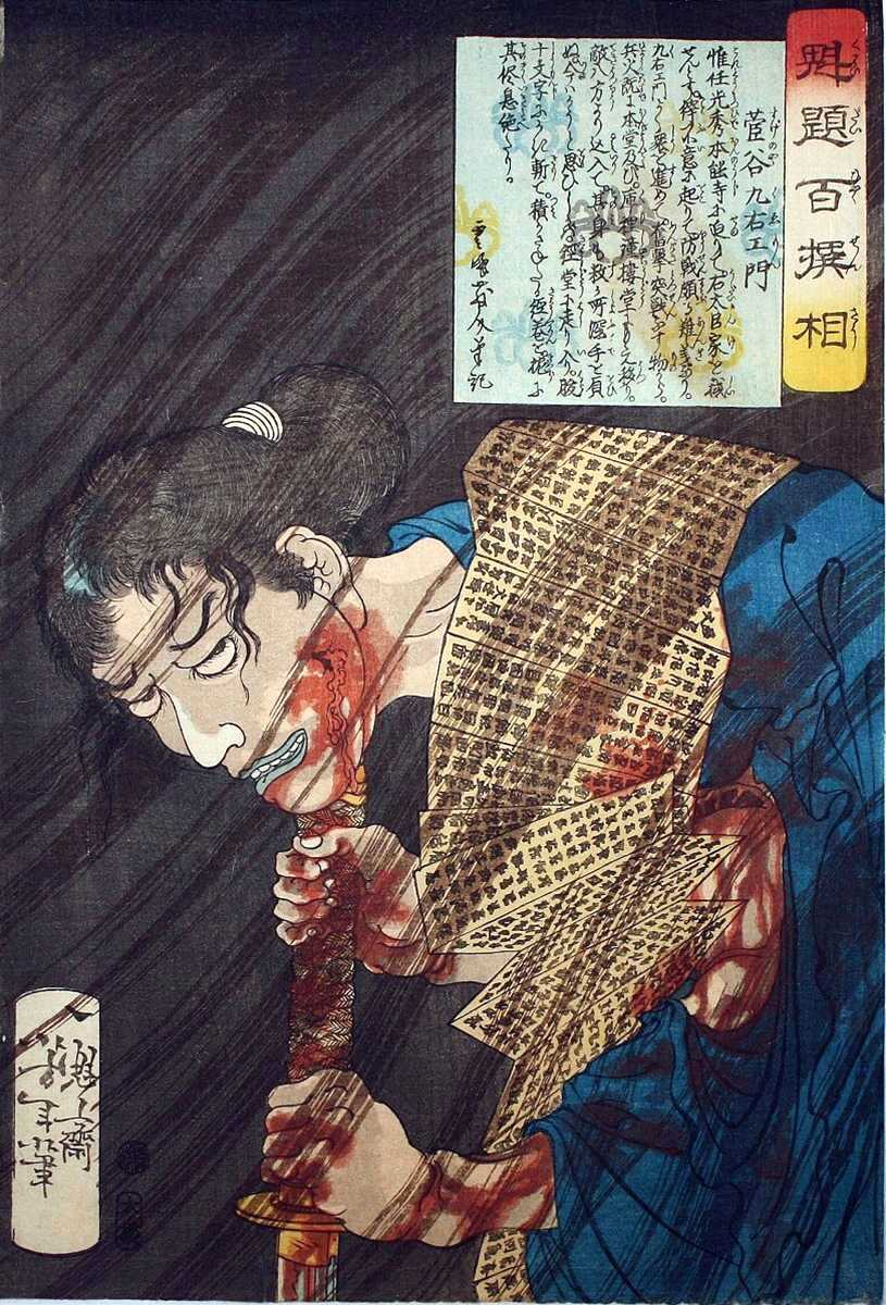 An ukiyo-e of Sugaya Nagayori who was a retainer of Oda Nomunaga.